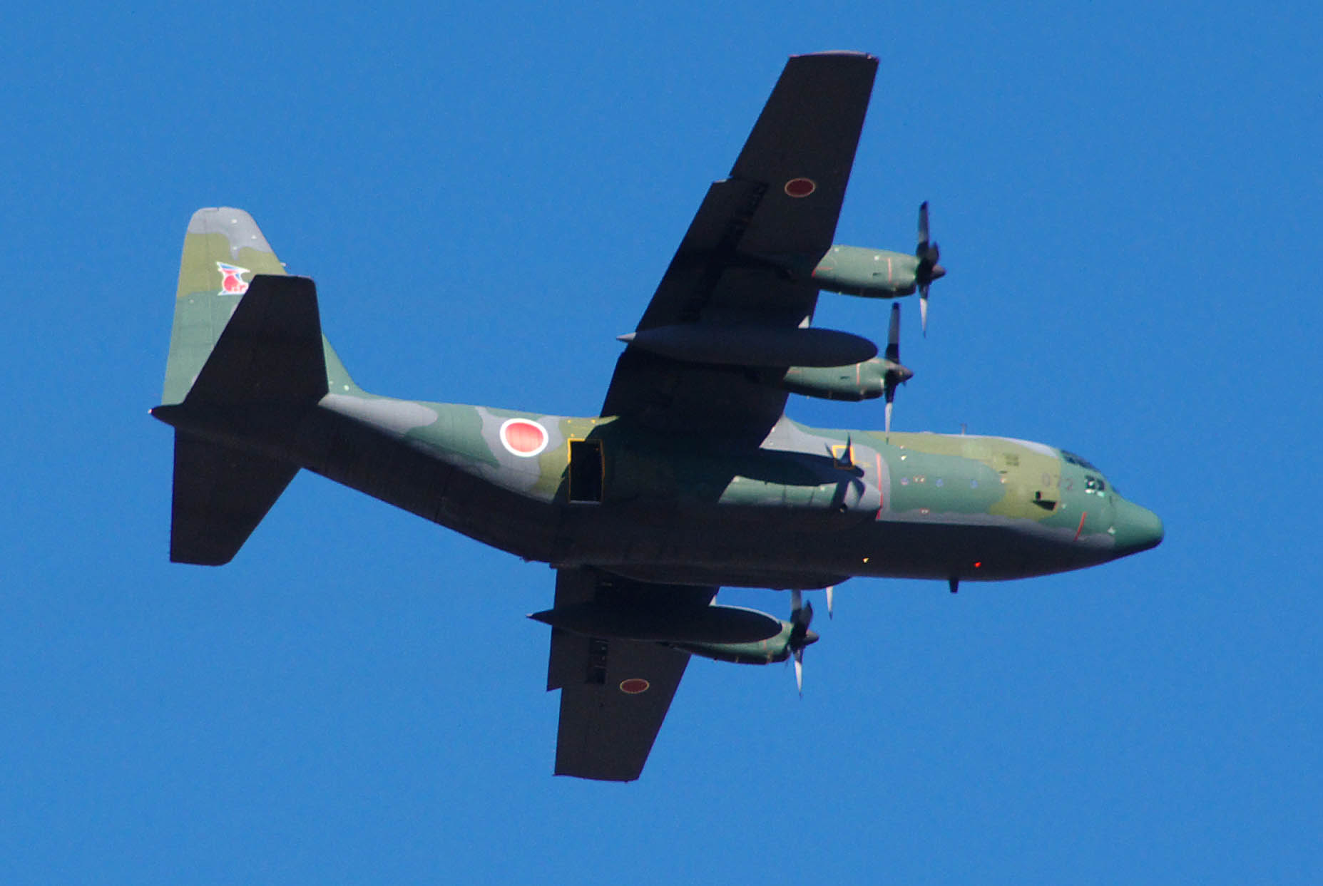 In Narashino,Japan,JGSDF 1st Airborne Brigade 2009 first drop manuver.11-Jan-2009.JASDF C-130.Taken by Los688.PD-self